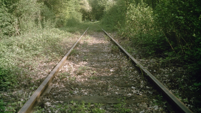 Switchback rail with buffer stop between Düpp and Donk, Viersen, Germany.